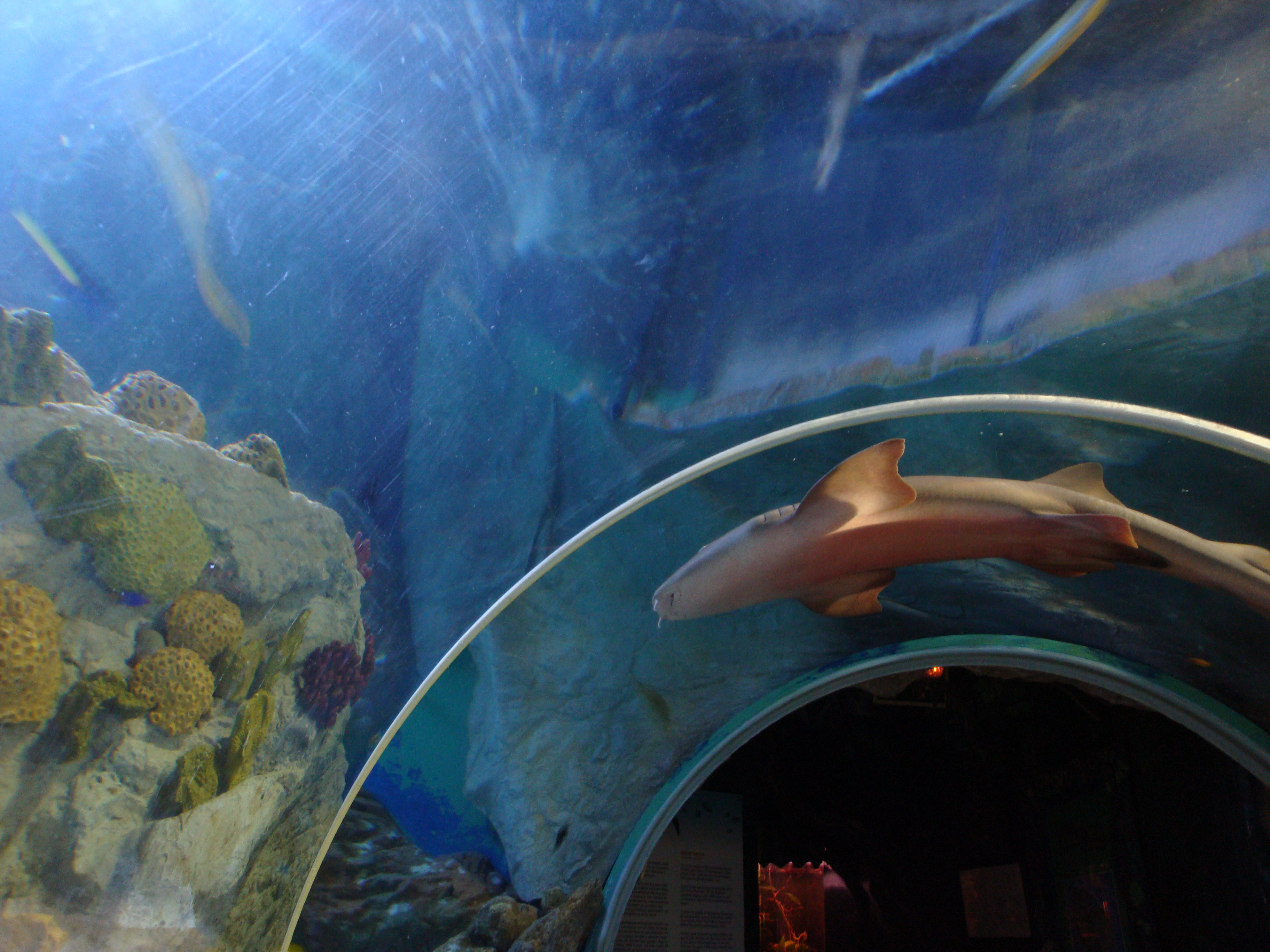 Public aquarium Sea Life in Benalmádena, Spain.